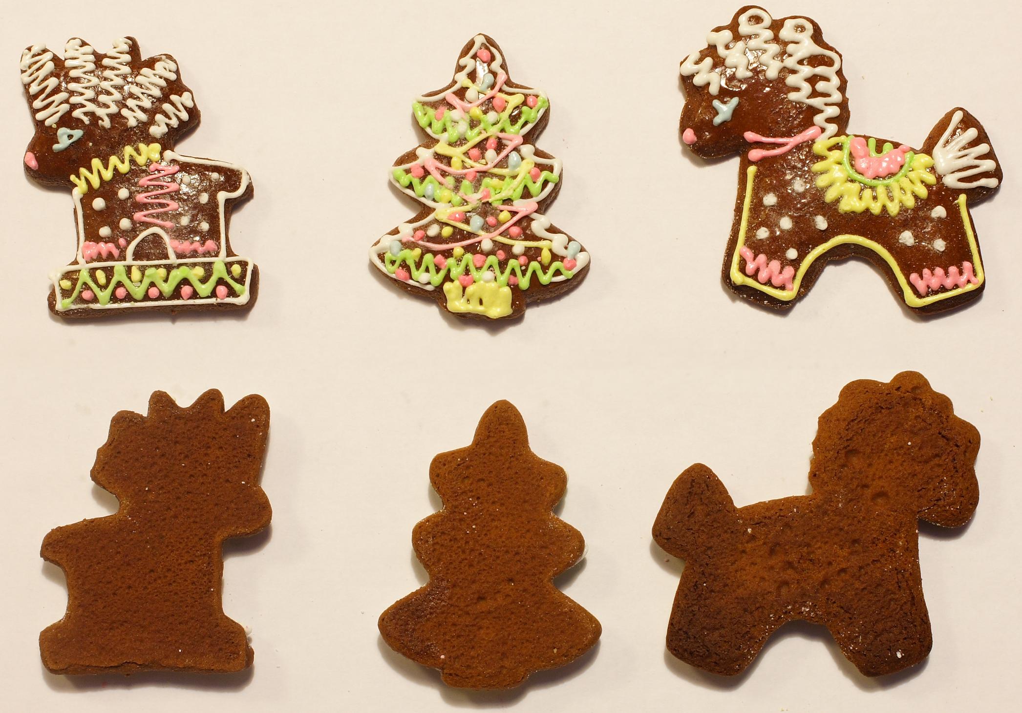 Kozuli, the type of Arkhangelsk's gingerbreads.